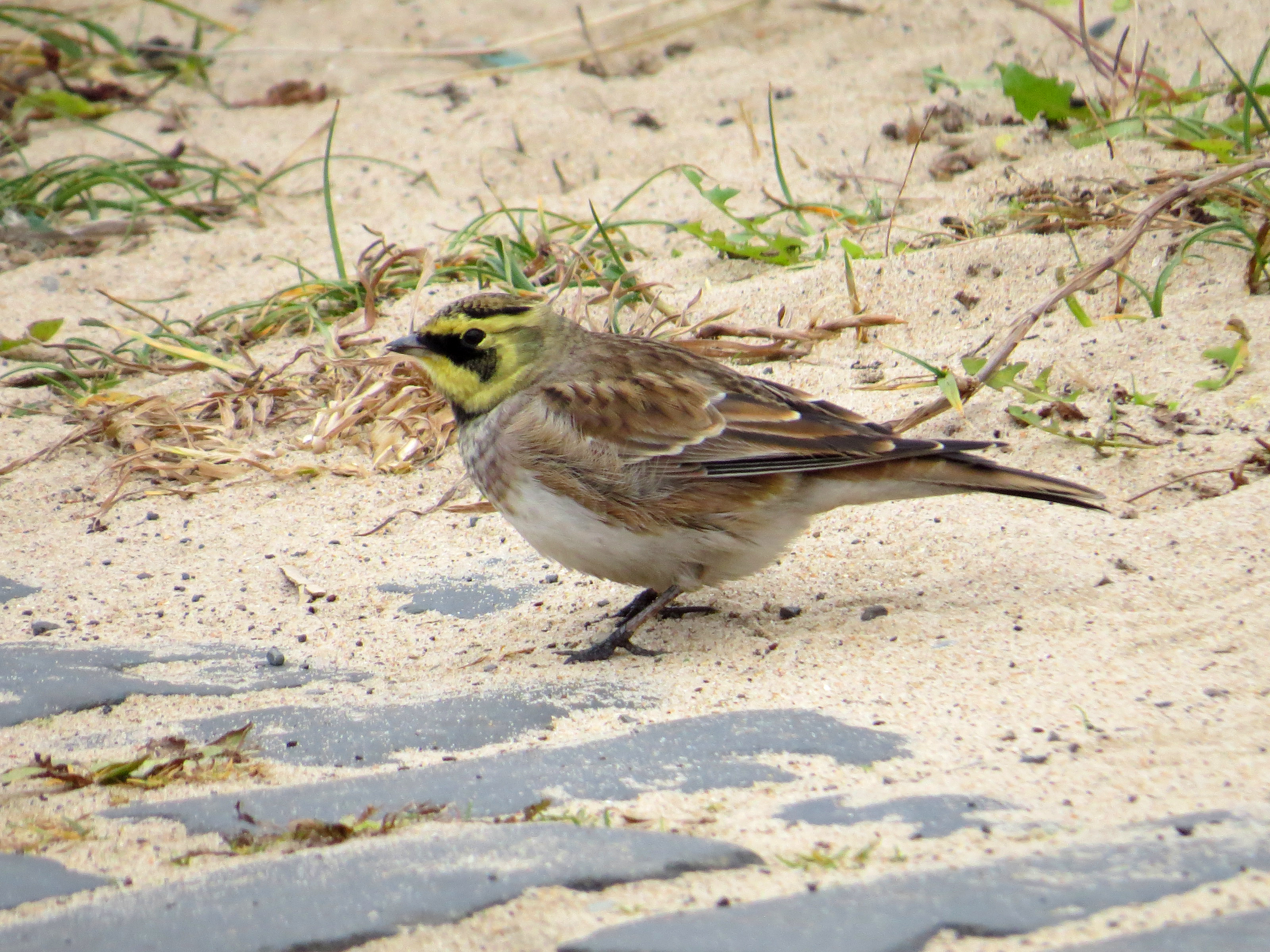 Shore Lark Eremophila alpestris flava, Blyth Harbour, Northumberland